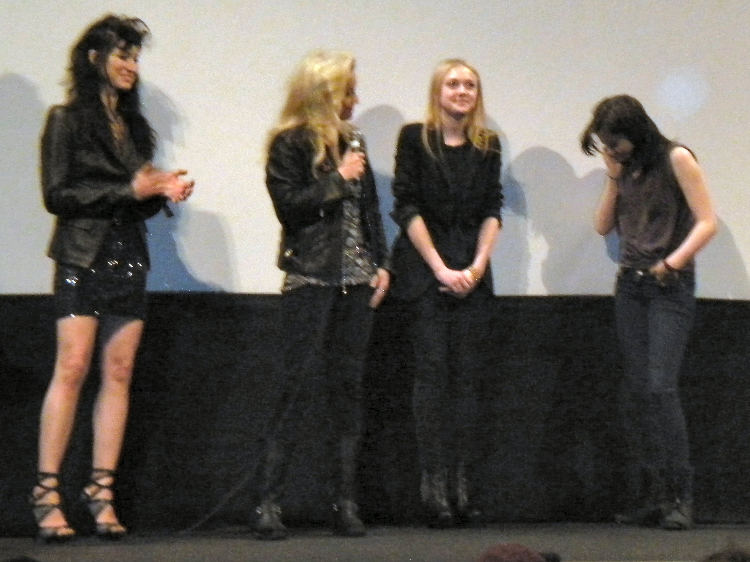 At SXSW 2010 screening of "The Runaways"